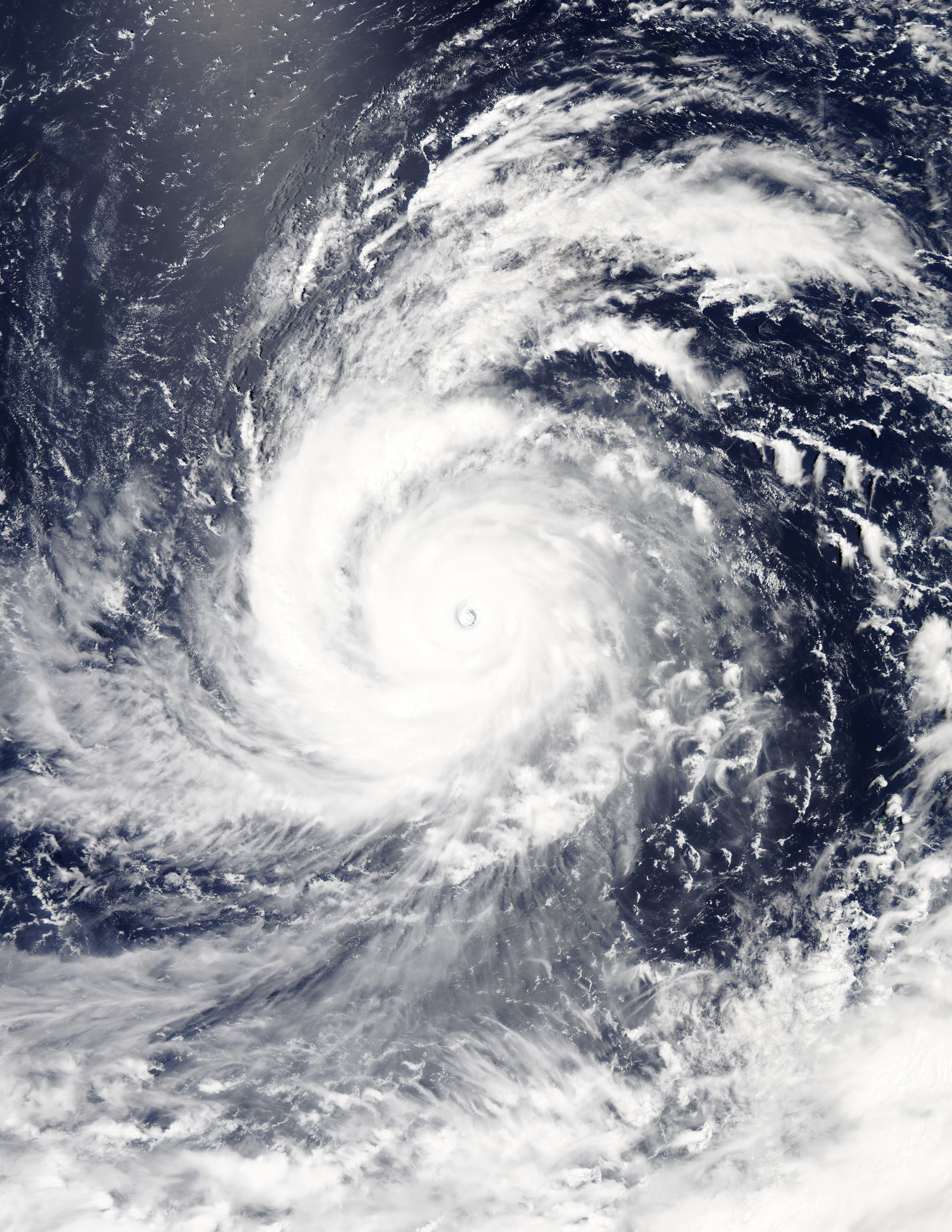 Typhoon Soudelor at peak intensity on August 4, 2015.